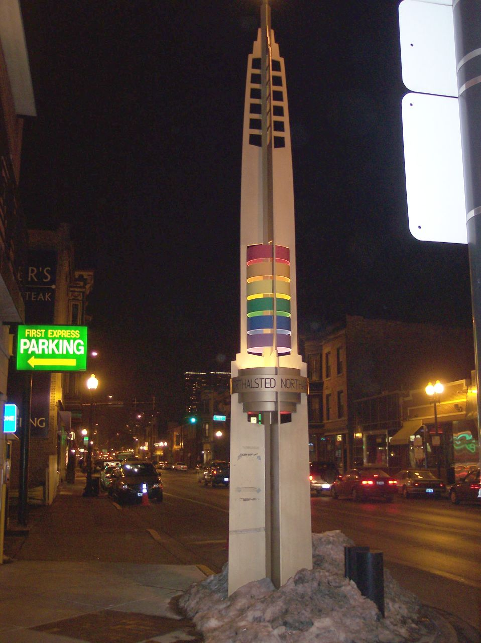 One of the landmark rainbow pylons along North Halsted Avenue in Chicago, Illinois Boystown gay village in Lakeview East.